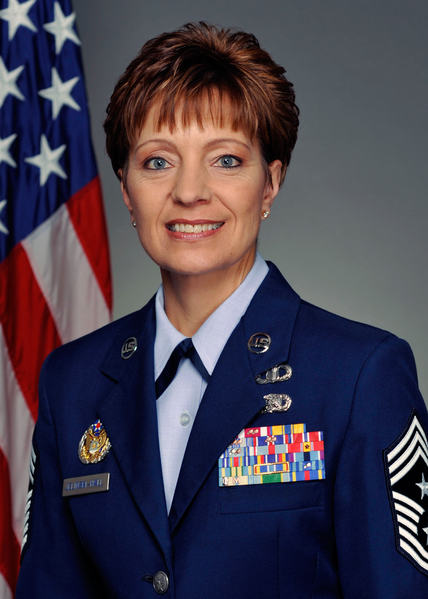 Senior Enlisted Advisor to the Chief of the National Guard Bureau, CMSgt Jelinski-Hall.